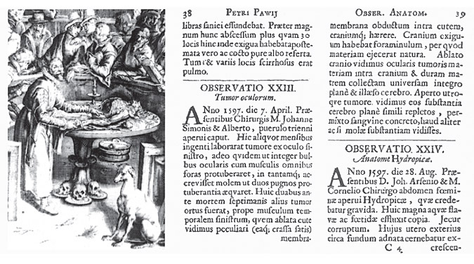 Excerpts from Observationes Anatomicae Selectiores by Pieter Pauw, professor of anatomy and botany in Leiden, the Netherlands, from 1589 to 1617, published posthumously by Bartholin. A detail from a gravure by Andreas Stog shows Pauw performing a public dissection in his anatomical theater. His 23rd observation, "Tumor of the Eyes," describes a 3-year-old boy who died of an orbital and intracranial neoplasm, probably retinoblastoma.